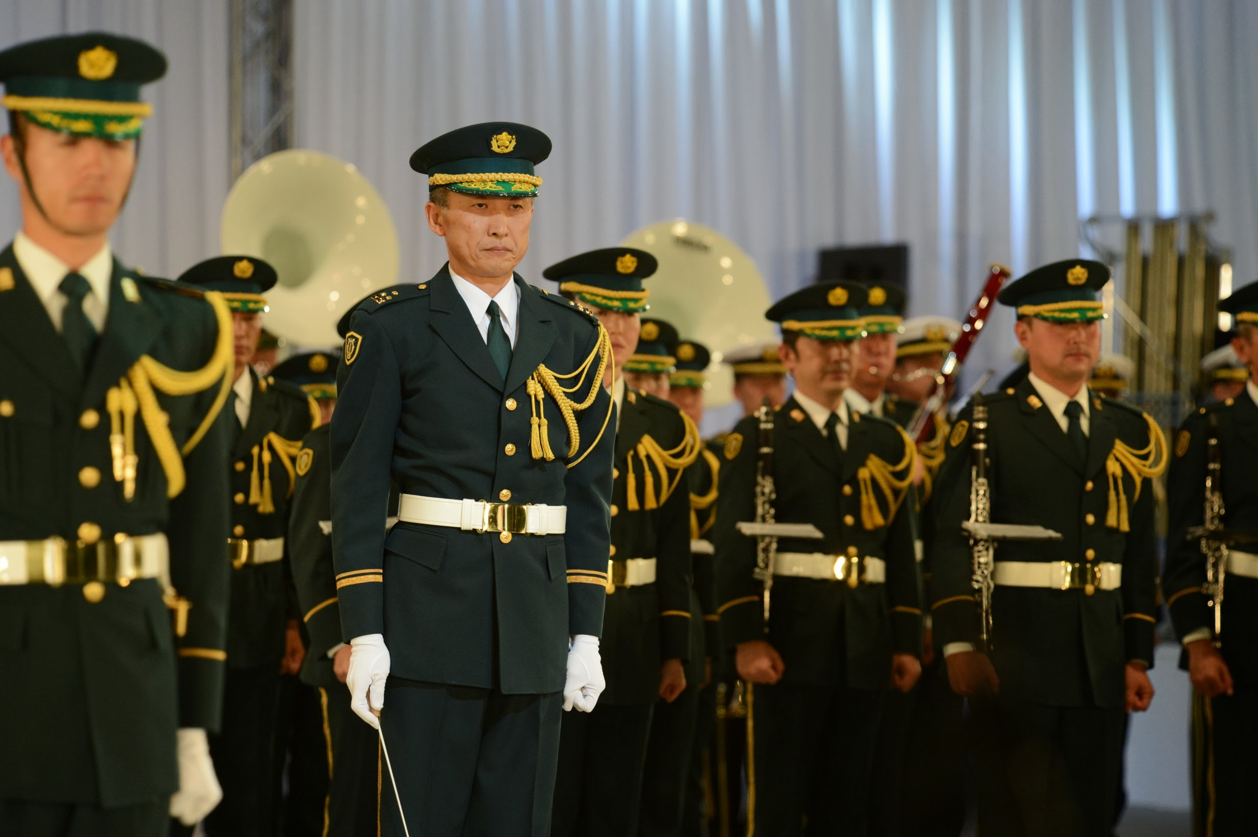 Title NOH_3956.JPG Album 平成25年度自衛隊音楽まつり Photographs by the Japan Ground Self-Defense Force